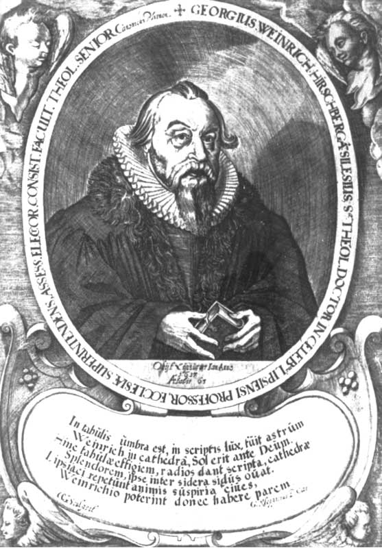 Georg Weinrich (1554-1617) german lutheran Thologist